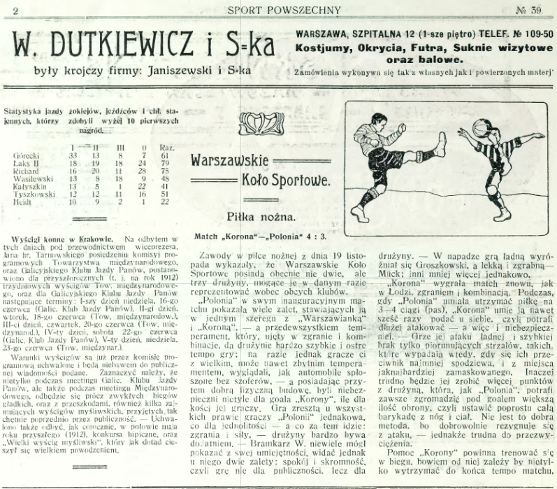 Press note from "Sport Powszechny" weekly (no 39) about football match between Polonia Warsaw and Korona Warsaw played on 19th of November, 1911. It was the first known football match of Polonia Warsaw club. Officially 19th of November 1911 is the foundation day of Polonia Warsaw.